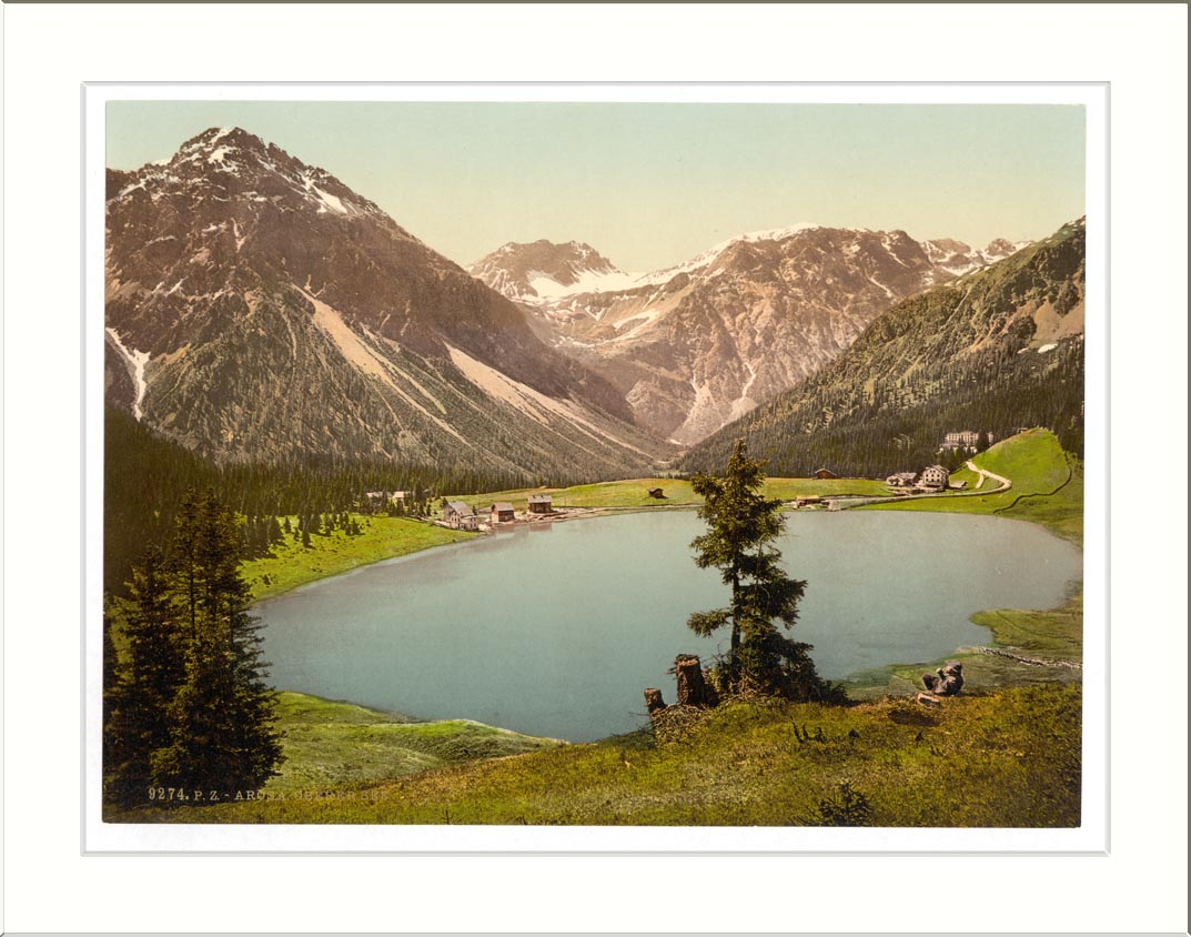 Arosa the Upper Lake Grisons Switzerland